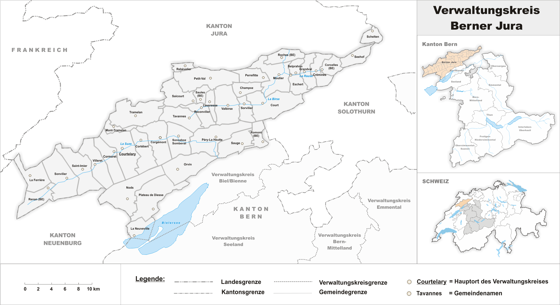 Municipalities in the district of Berner Jura